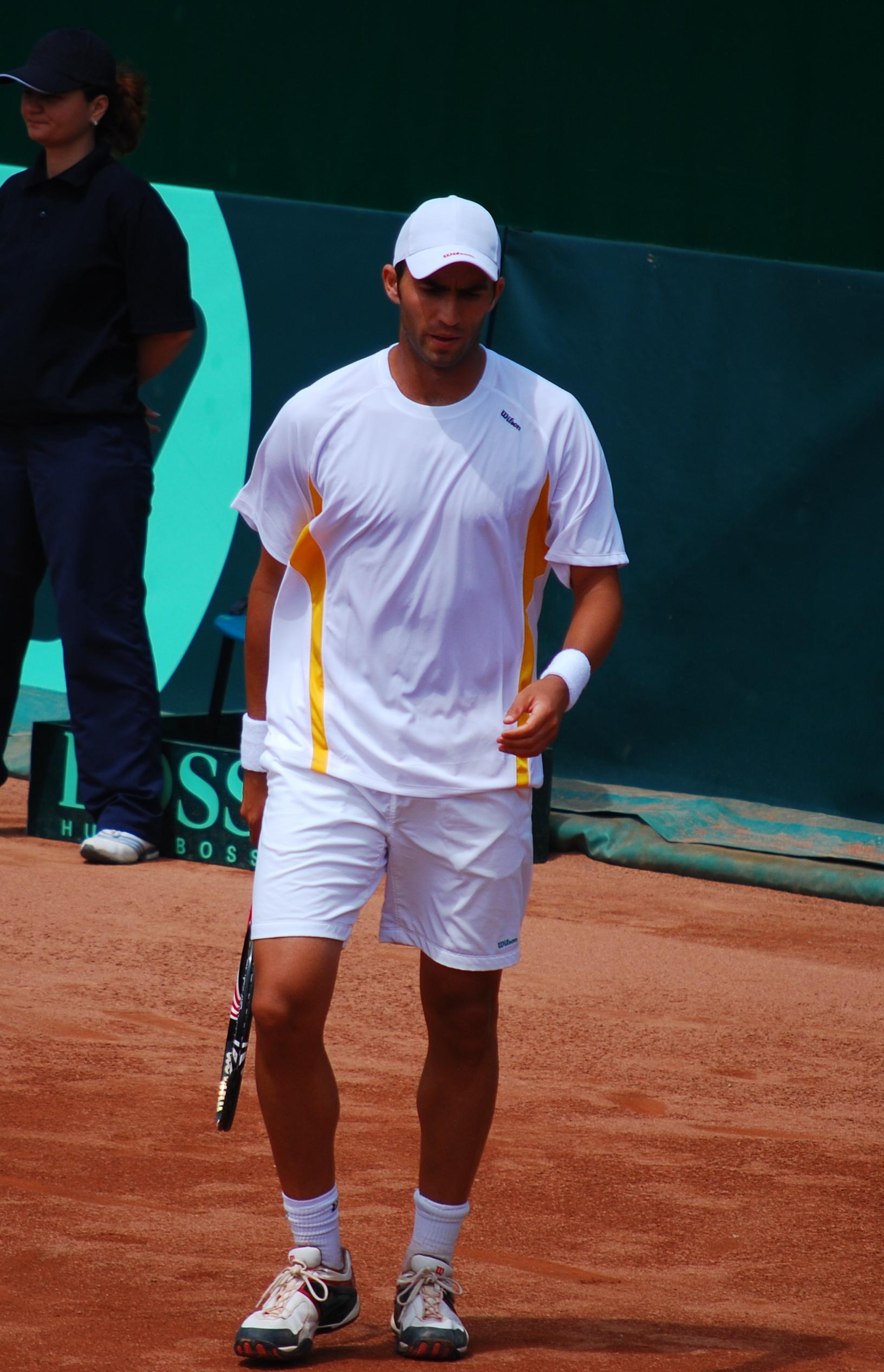 Romanian tennis player Horia Tecău during the doubles match against Ukraine in the Davis Cup 2010